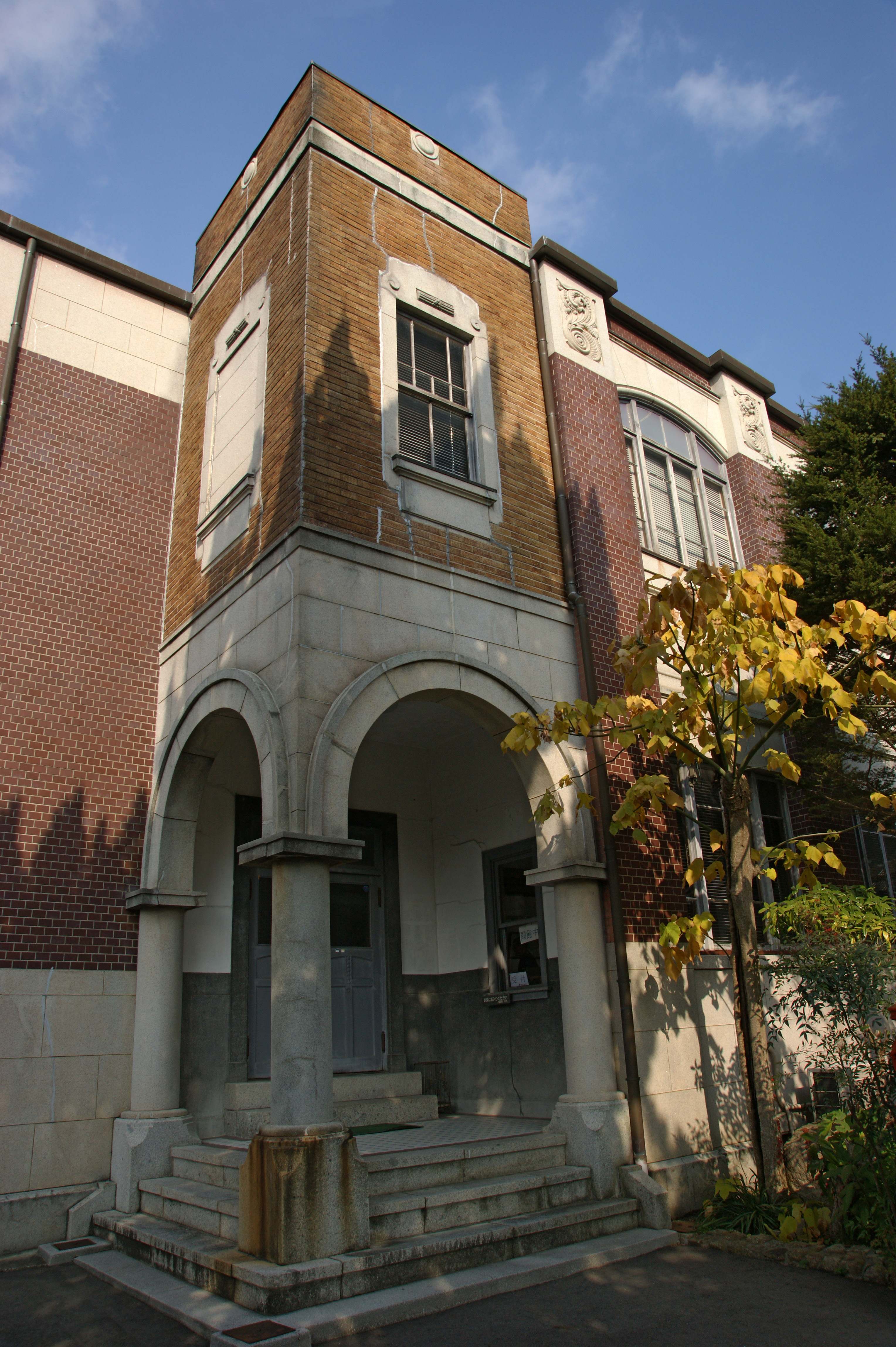 Usukuchi-Tatsuno-Shoyu Museum Annex, Tatsuno, Hyogo prefecture, Japan